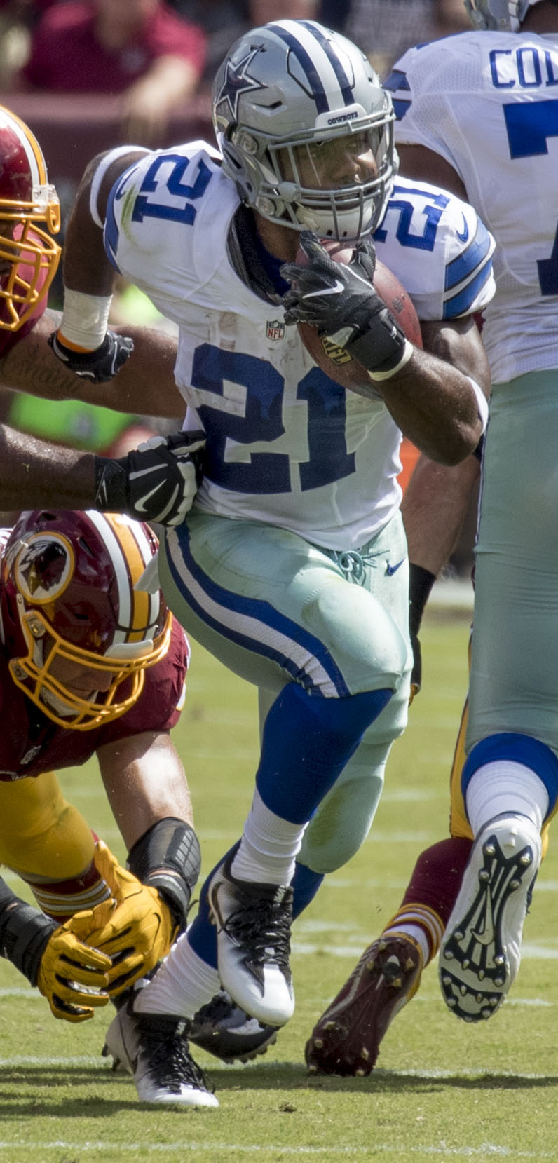 Photo of Dallas Cowboys running back Ezekiel Elliott